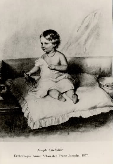 Archduchess Maria Anna of Austria. Died aged four.